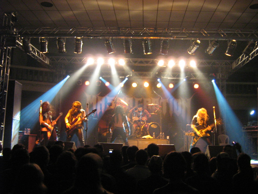 Massacration (Hermes e Renato humorist group) in Atibaia